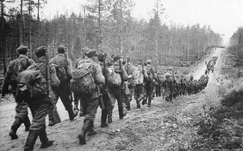 Finnish army on march.